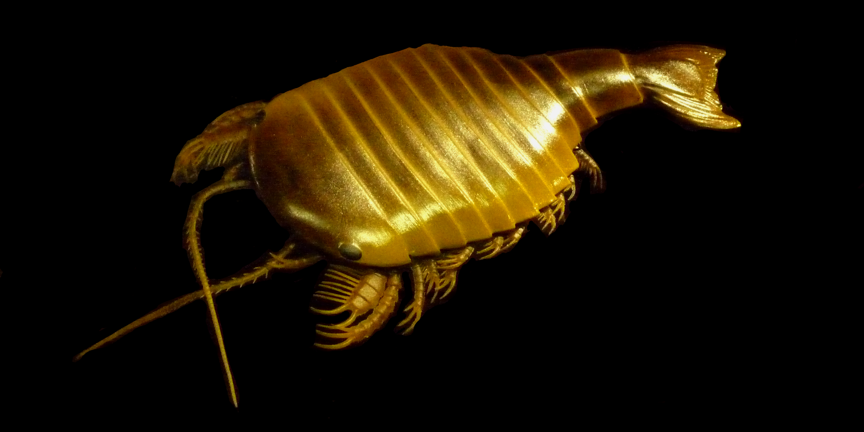 Artistic interpretation of Sidneyia, model made after a fossil cast.